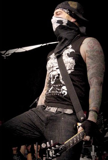 Zacky Vengeance of Avenged Sevenfold - Live in Concert